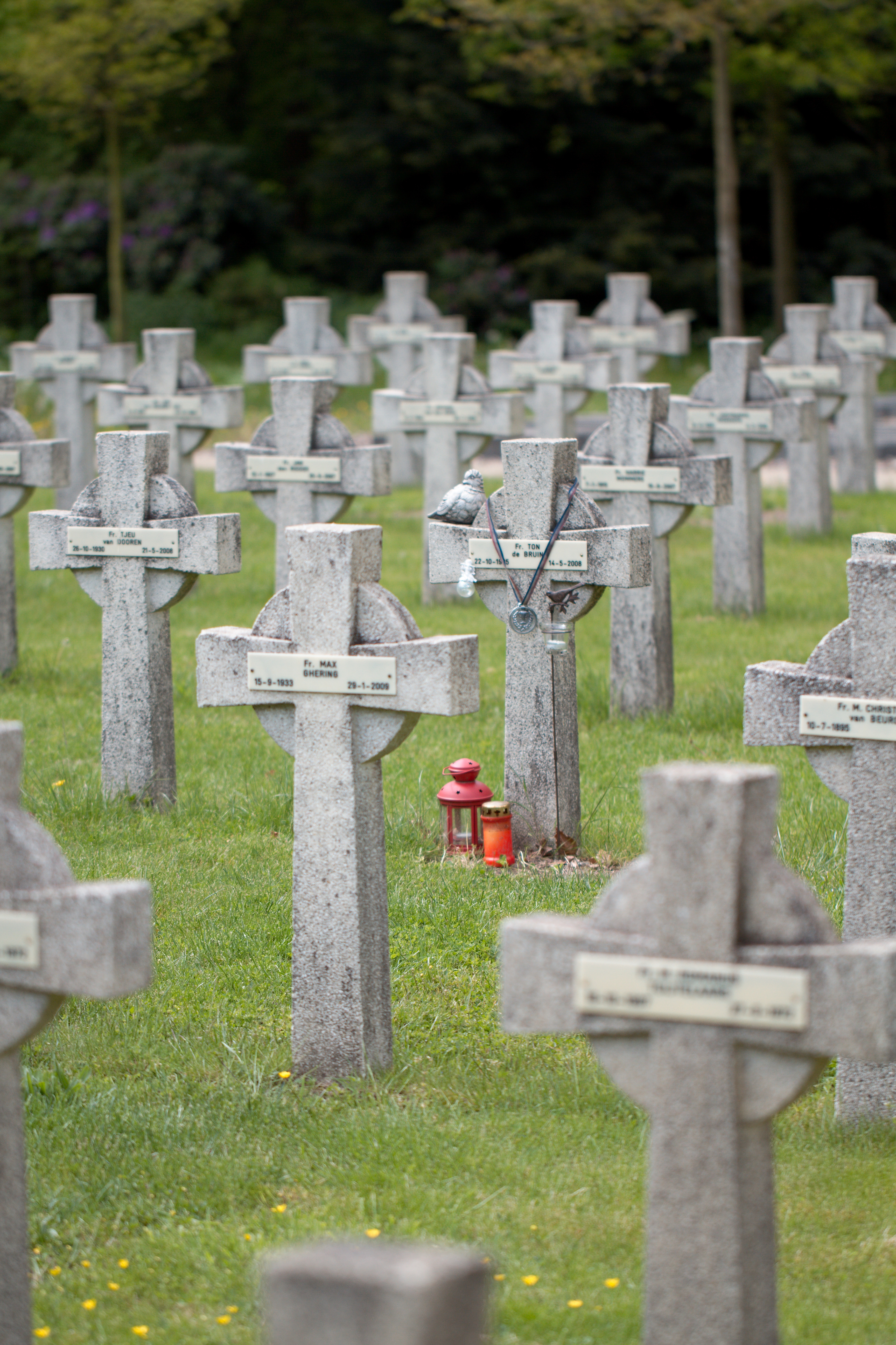 At the ZIN monestery